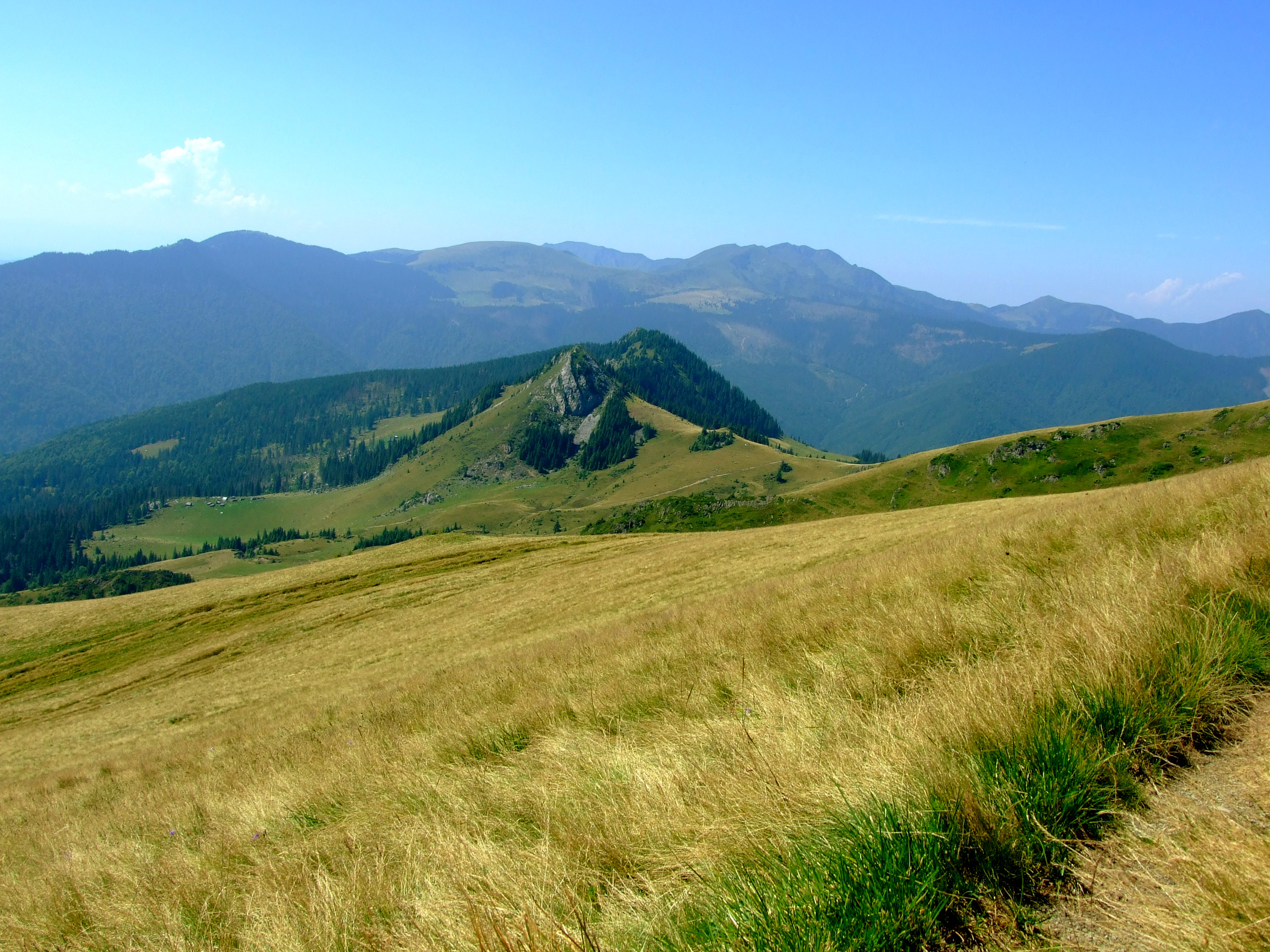 Farcău mountain massif/complex in Maramureş Mountains, Maramureş County, Romaniahelp